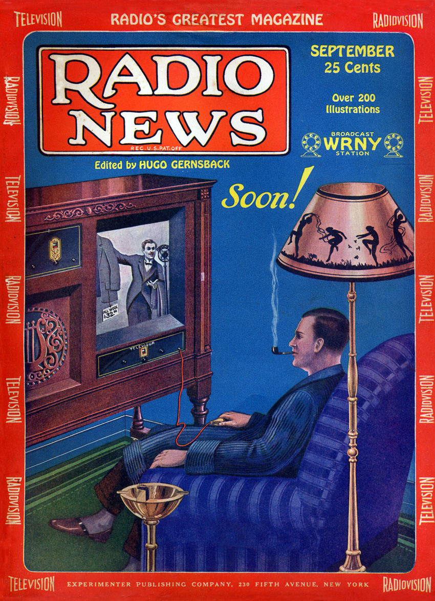 The ideal television of the future. The realistic television of 1928 can be seen on the November cover Image:Radio News Nov 1928 Cover.jpg. These early experimental televisions could not maintain synchronization with the camera. The viewer had to constantly make adjustments. This viewer has the sync control in his hand. Radio News, September 1928. Volume 10 Number 3. Published by Experimenter Publishing, New York, NY Editor-in-Chief and Publisher: Hugo Gernsback Table of Contents Image:Radio News Sep 1928 pg194.png The page numbers were on an annual basis, not per issue. This issue had pages 193 to 288. The magazine is 8.5 by 11.5 inches (23 by 29 cm).